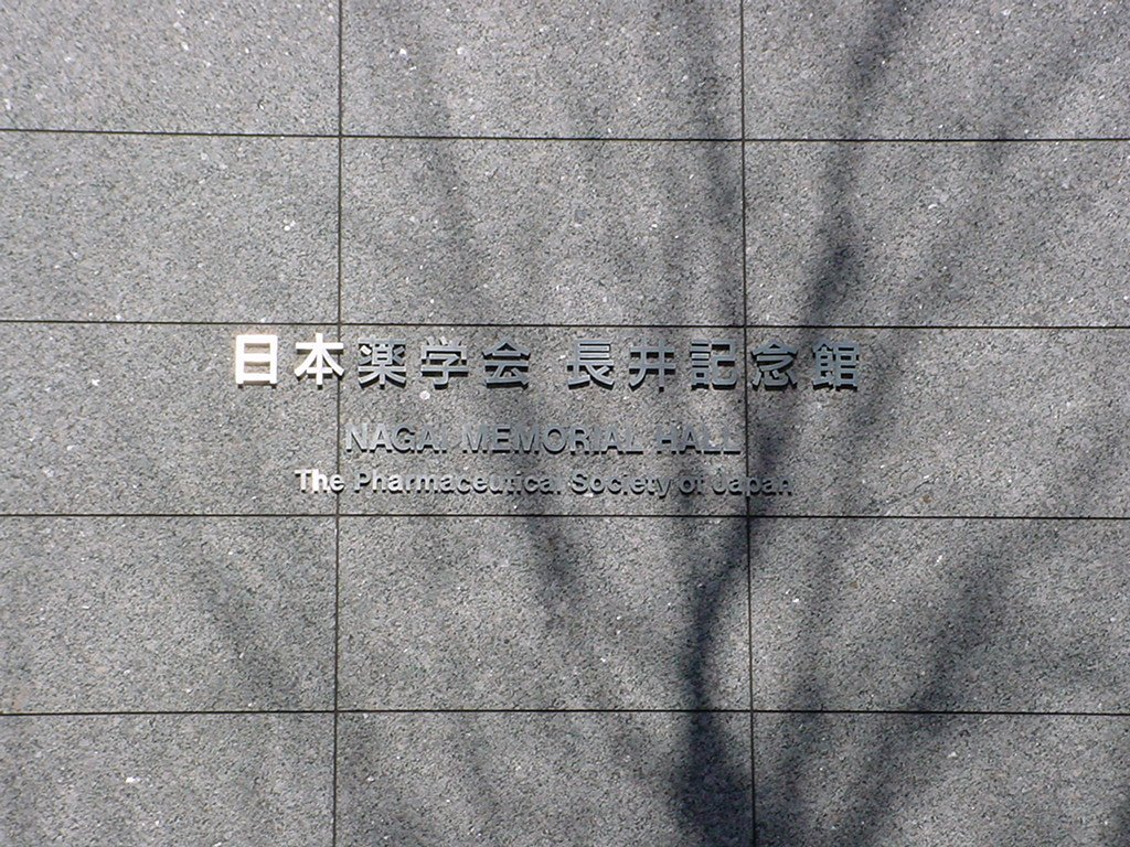 Nameplate of Nagai Memorial Hall